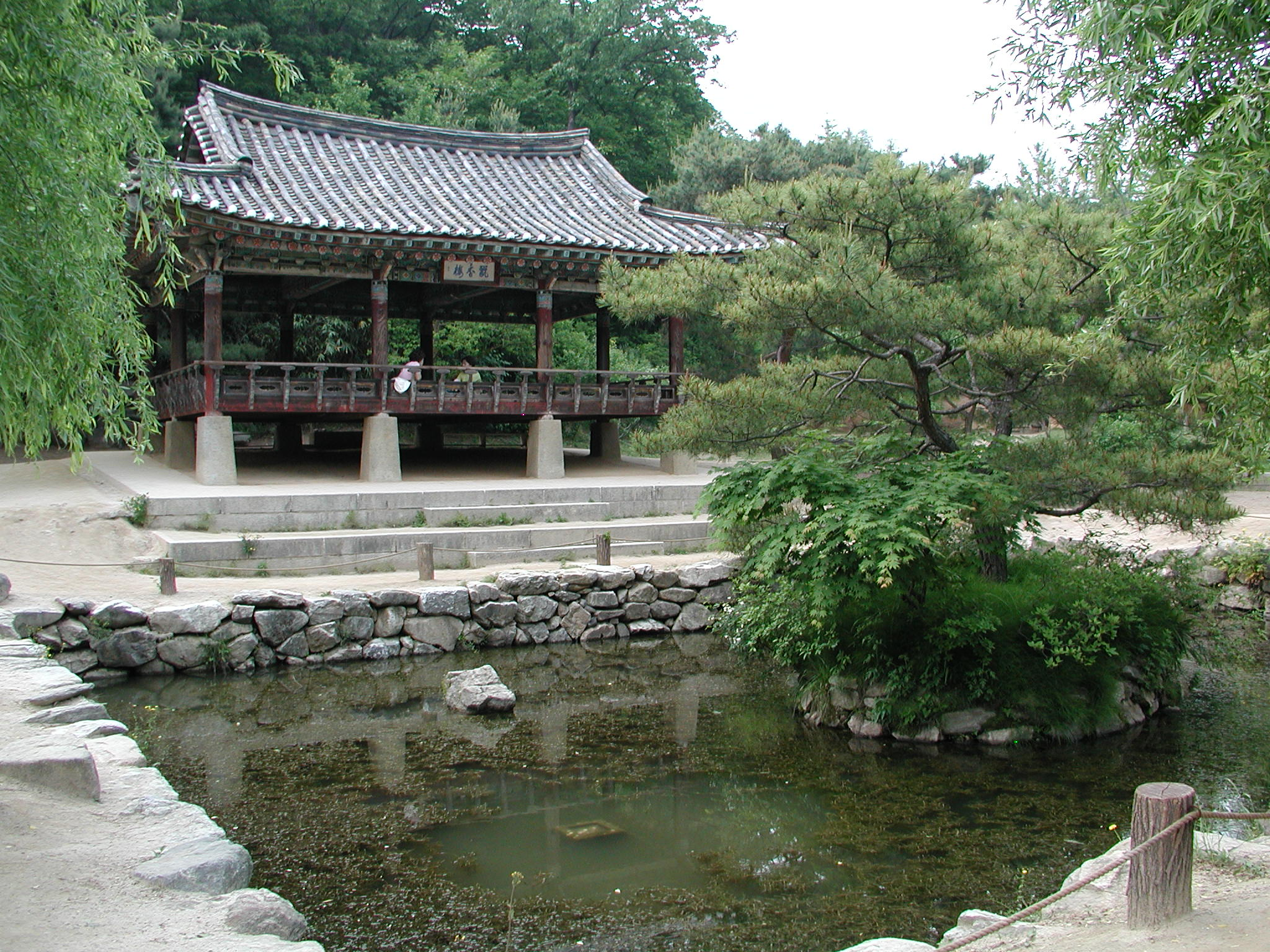 Korean Folk Village (Minsokchon) in Yongin, Gyeonggi-do, Korea